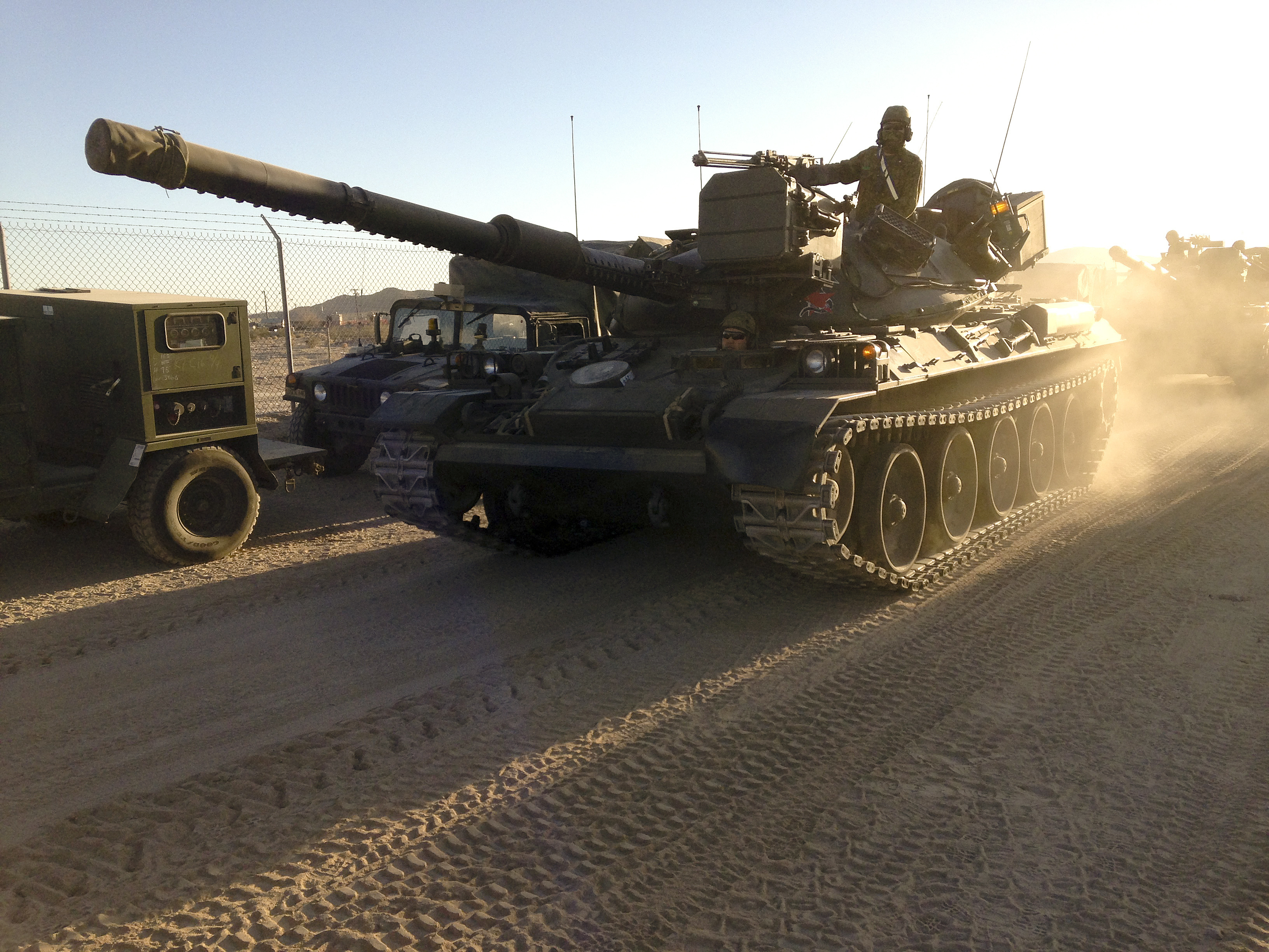 A Type 74 Main Battle Tank of the Japan Ground Self-Defense Force rolls through the motor pool at the National Training Center at Fort Irwin, Calif., Jan. 15, 2014. The JGSDF were at NTC for the first time last month to conduct joint training exercises with 3-2nd Stryker Brigade Combat Team, 7th Infantry Division, from Joint Base Lewis-McChord, Wash. Training opportunities such as this are good for both countries as it encourages mutual respect and promotes enduring relationships for both U.S. and Japanese soldiers. (Photo by Staff Sgt. Chris McCullough)